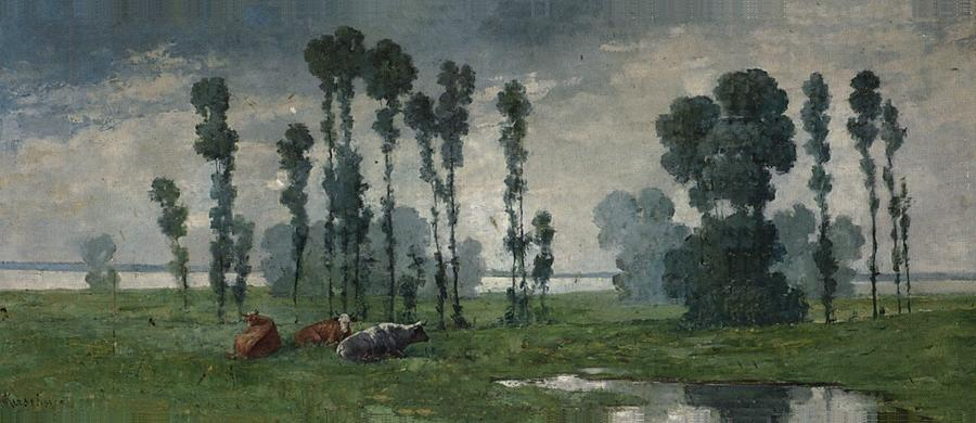 River landscape with cattle